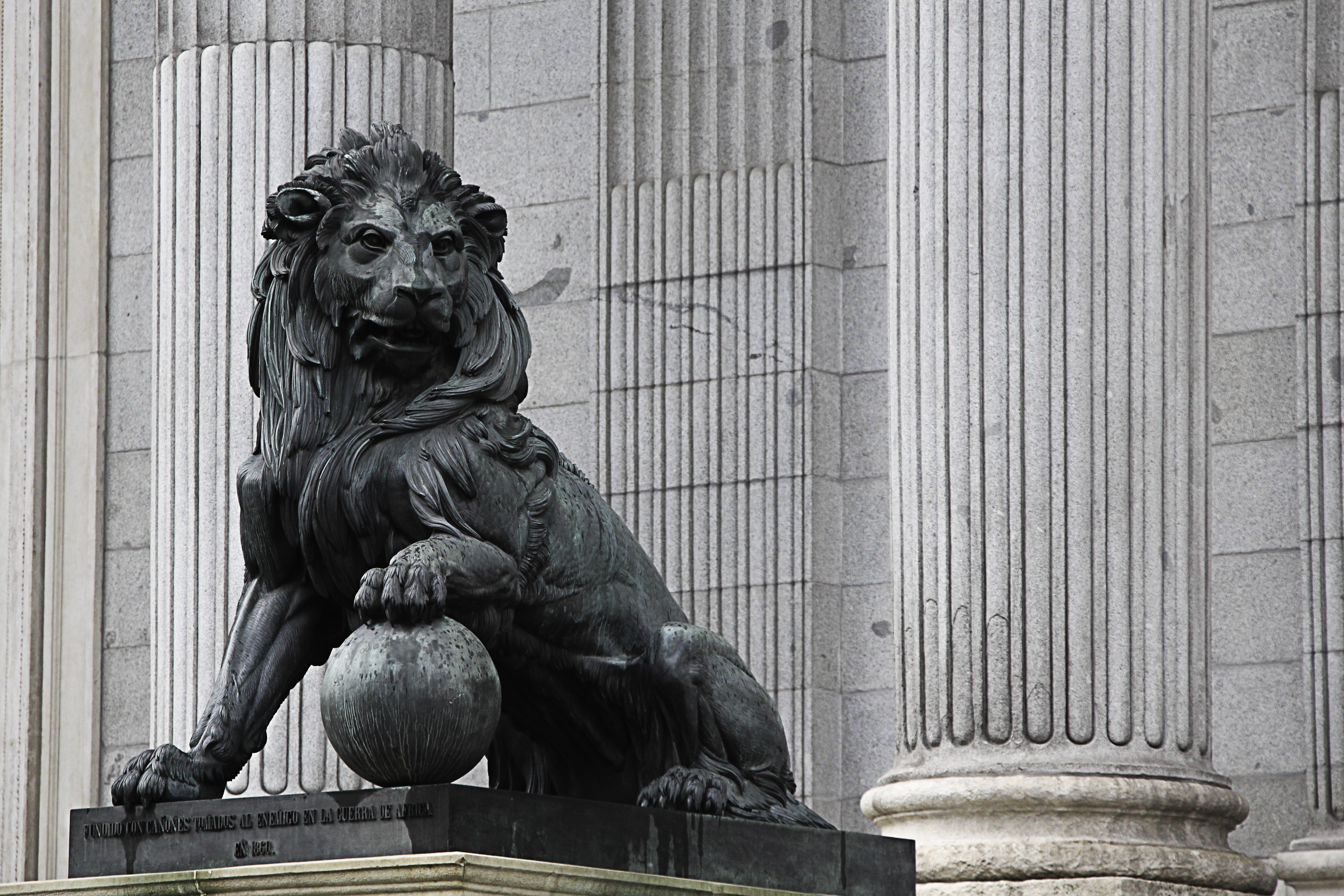 Congreso